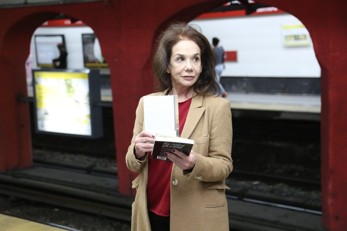 Ana María Picchio at Line B of the Buenos Aires Underground